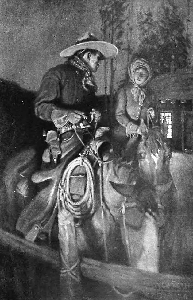 N.C. Wyeth illustration of Emma Ghent Curtis's "In the Dark of the Moon," published in The Century Magazine. The caption for the illustration reads, "We paused in the square of generous light."